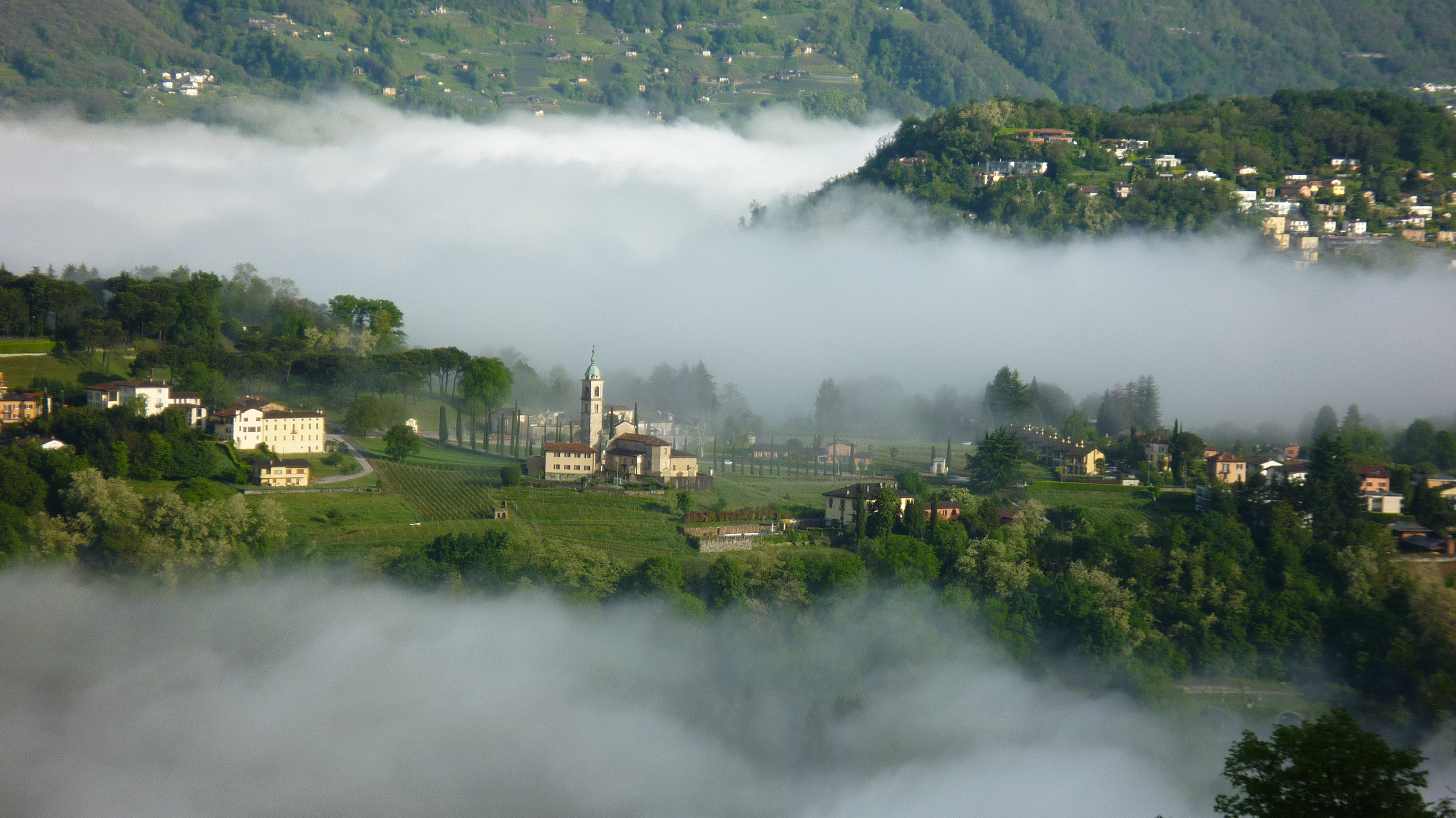 The church of San Abbondio, Gentilino (Canton of Tessin / Switzerland)